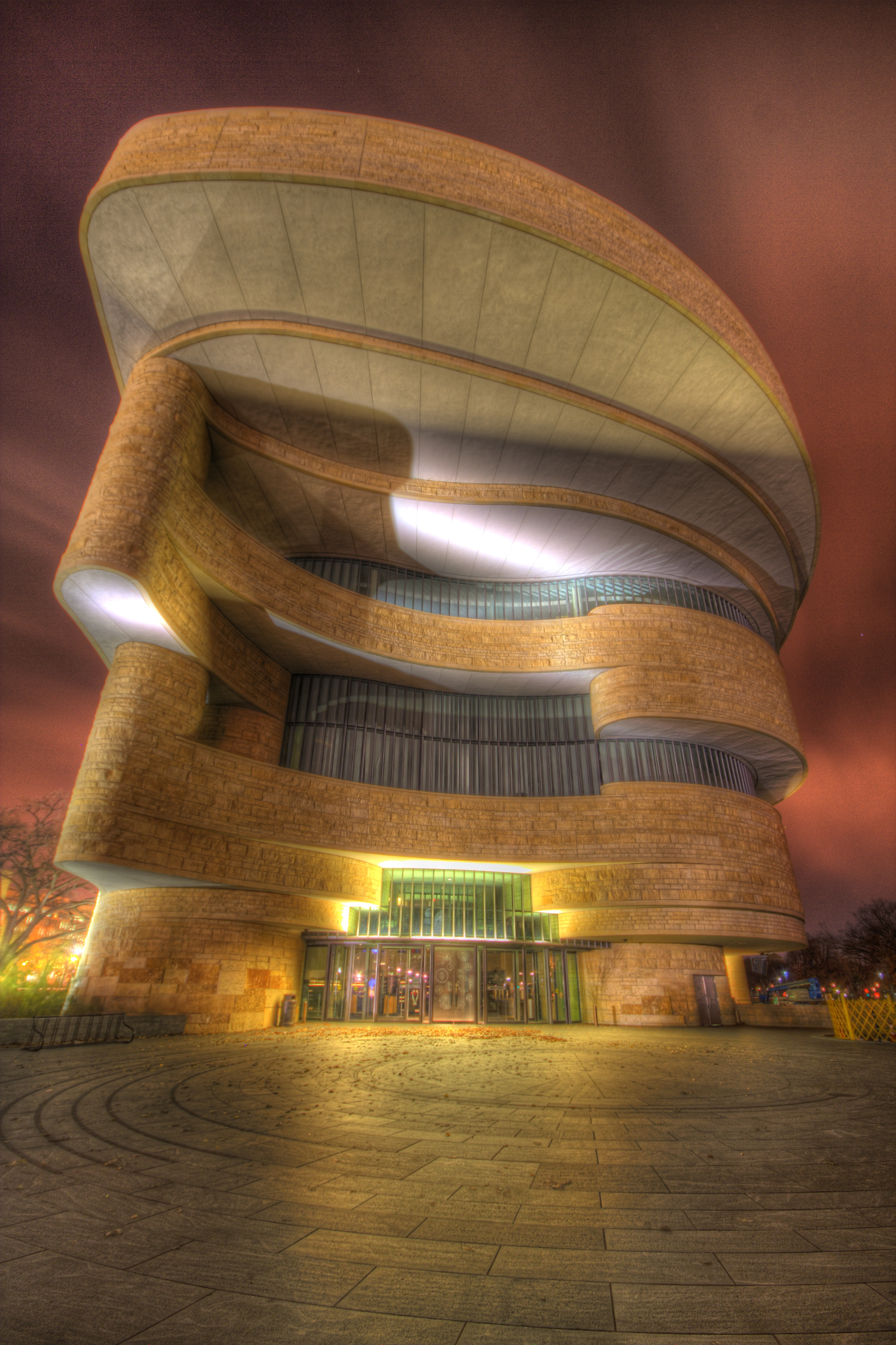 The National Museum of the American Indian located at the intersection of 4th Street and Independence Avenue, SW in Washington, D.C.